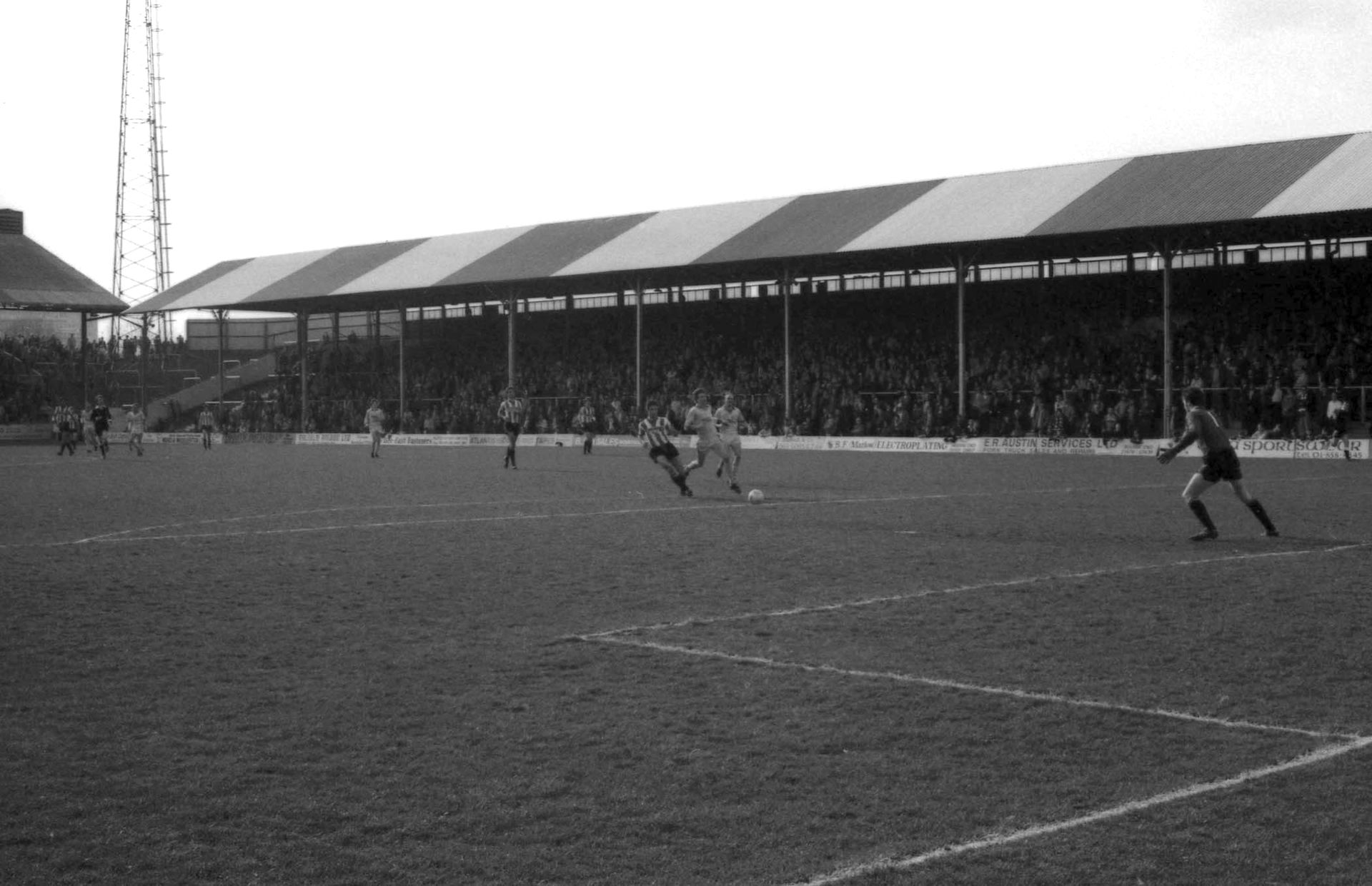 Griffin Park home of Brentford FC